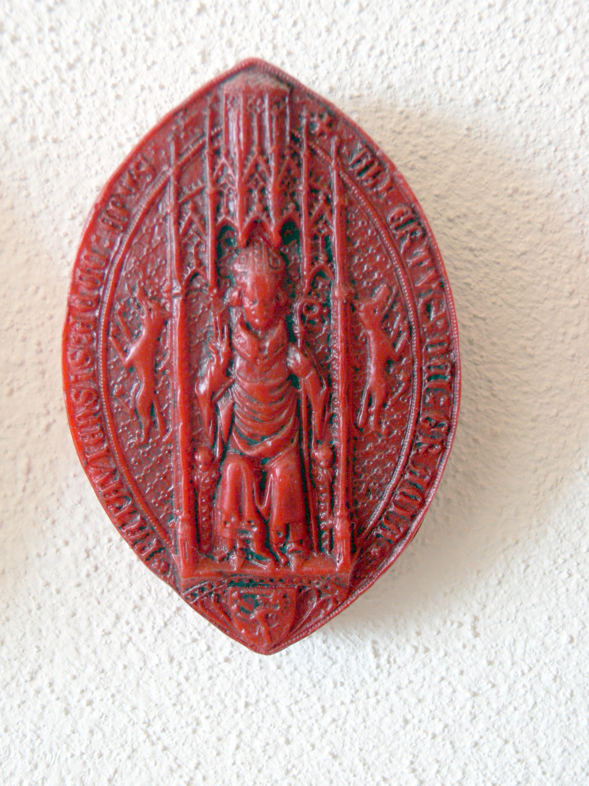 Seal of Albert von Winkel as bishop of Passau 1375